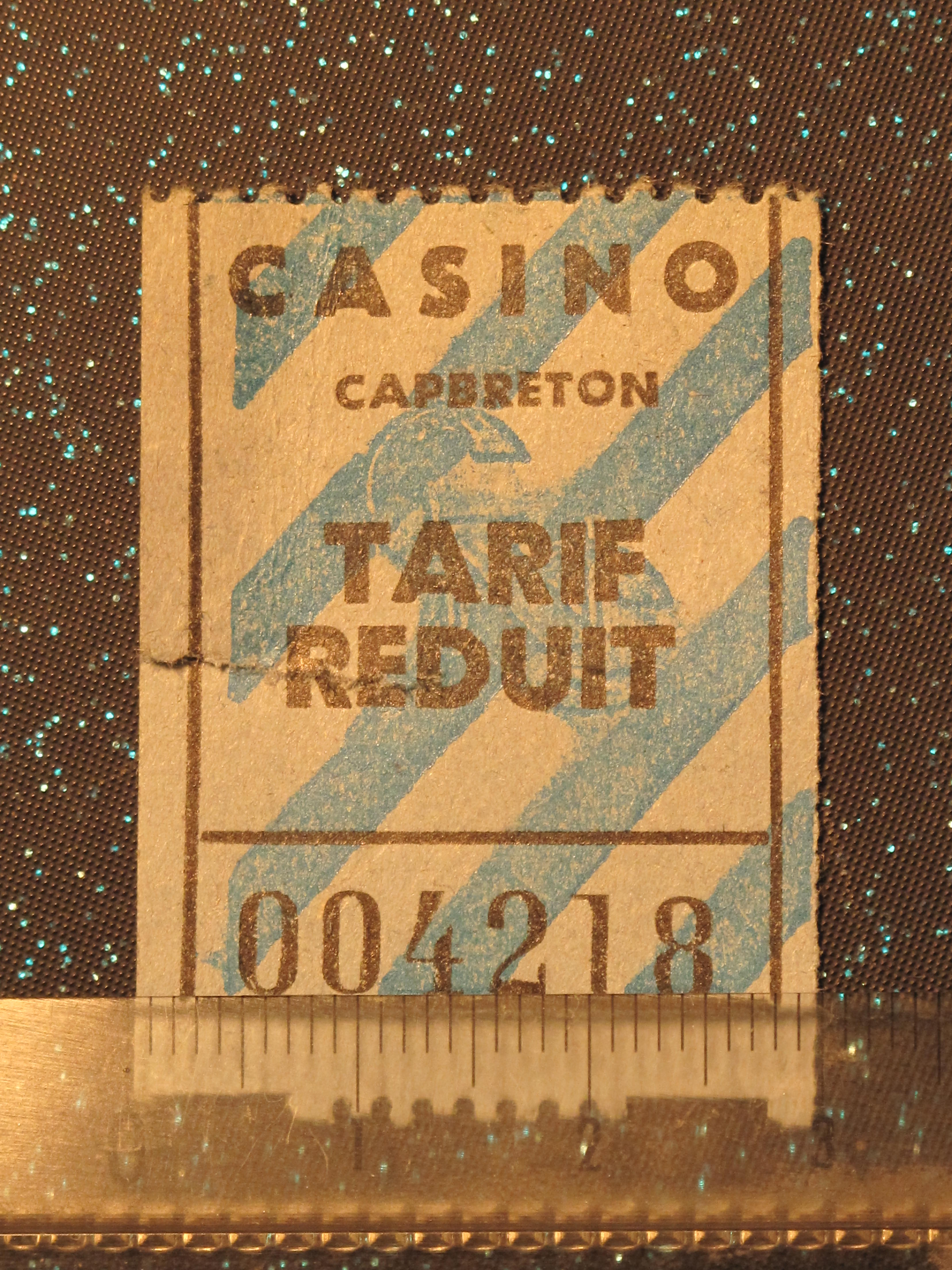 Entrance ticket for cinema used in France before the delivery machines